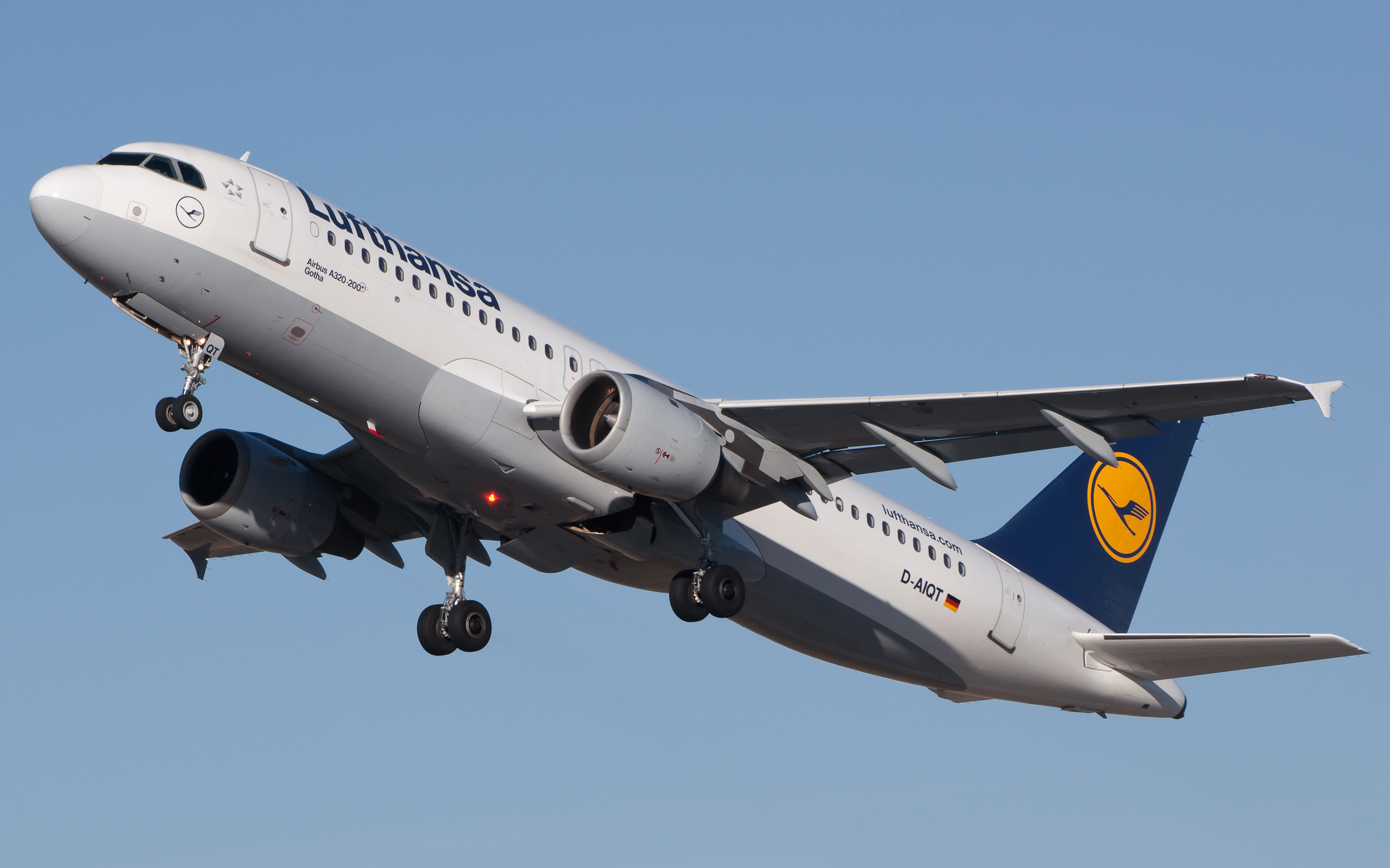 Lufthansa Airbus A320-211 (reg. D-AIQT, cn 1337) taking off at Stuttgart Airport (EDDS/STR). The A320 series has two variants, the A320-100 and A320-200. Only 21 A320-100s were produced; these aircraft, the first to be manufactured, were only delivered to Air Inter (later acquired by Air France) and British Airways (as a result of an order from British Caledonian Airways made prior to its acquisition by British Airways). Compared to the A320-100, the primary changes on A320-200 are wingtip fences and increased fuel capacity for increased range. Indian Airlines used its first 31 A320-200s with double-bogie main landing gear for airfields with poor runway condition which a single-bogie main gear could not manage. Typical range with 150 passengers for the A320-200 is about 3,300 nmi (6,150 km). It is powered by two CFMI CFM56-5s or IAE V2500s with thrust ratings between 113 to 120 kN (25,400 to 27,000 lbf). The lowest speed an A320 can fly is approximately 207 km/h